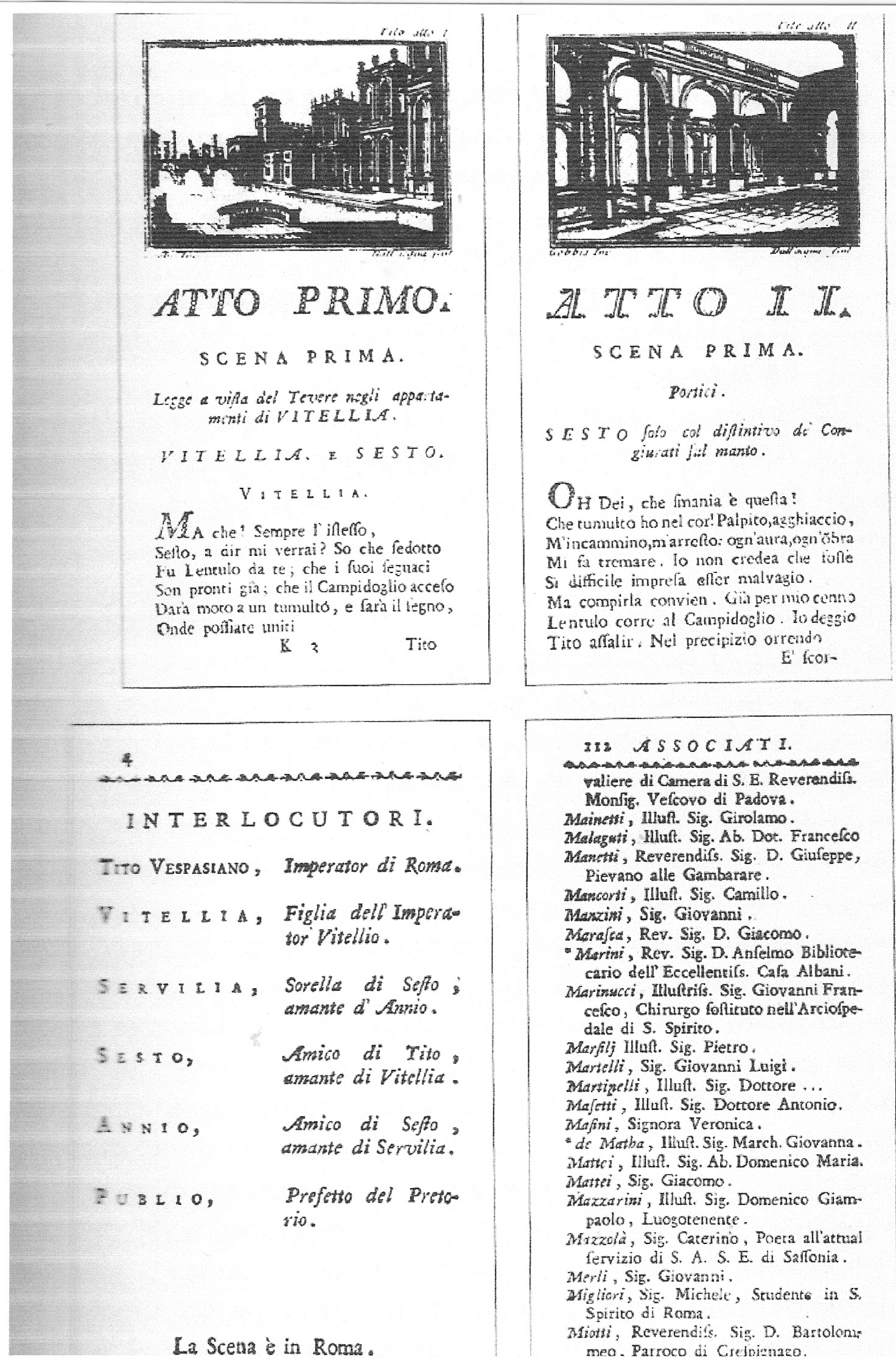 La clemenza di Tito 's original libretto.